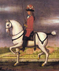 Prince George of Denmark riding a Frederiksborg horse. The painting is permanently exhibited at Rosenborg Castle.